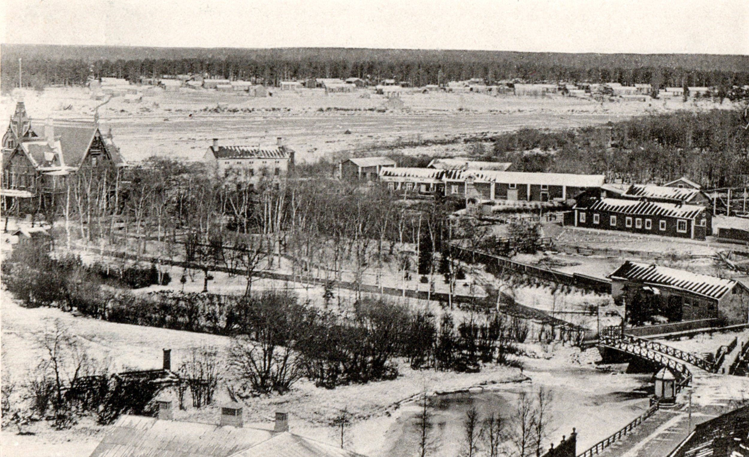 Veljekset Åström (i.e. Brothers Åström) leather factories in Oulu before 1909.